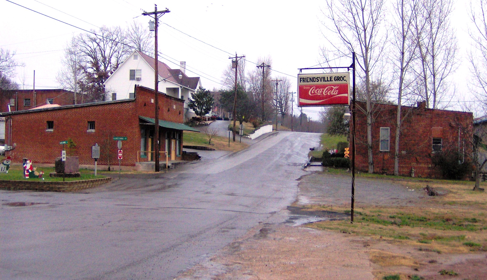 The old section of Friendsville, Tennessee, located in the Southeastern United States.